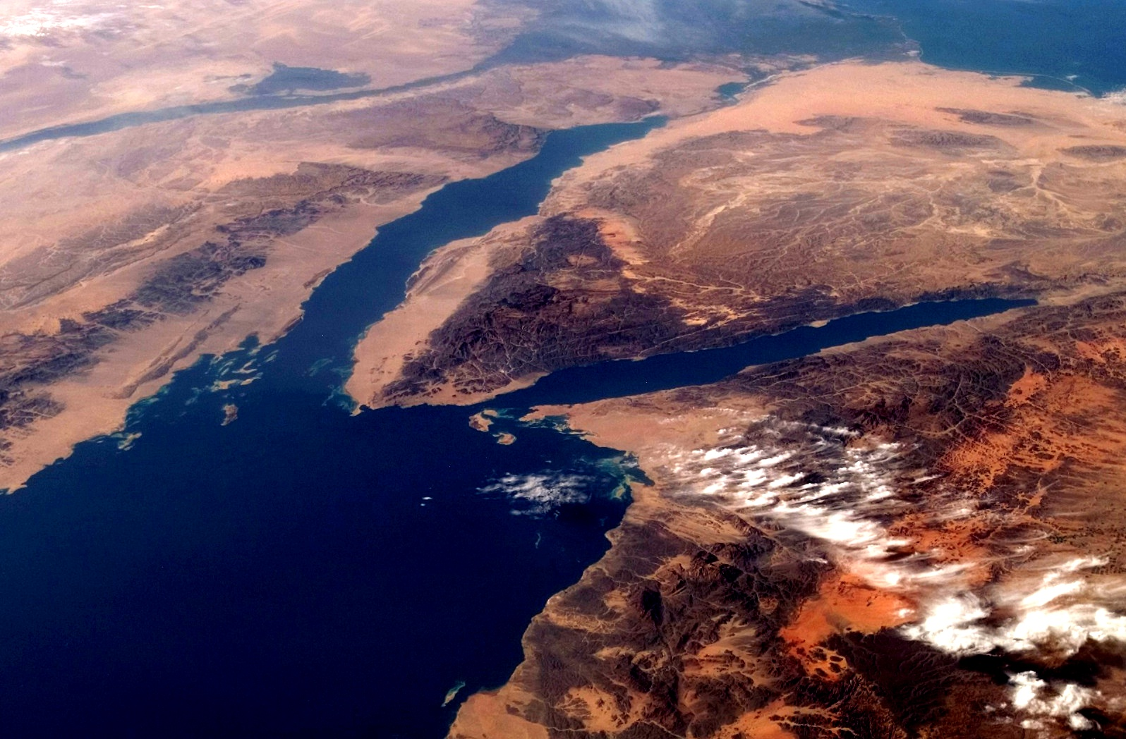 A picture taken from orbit of the Gulf of Suez.